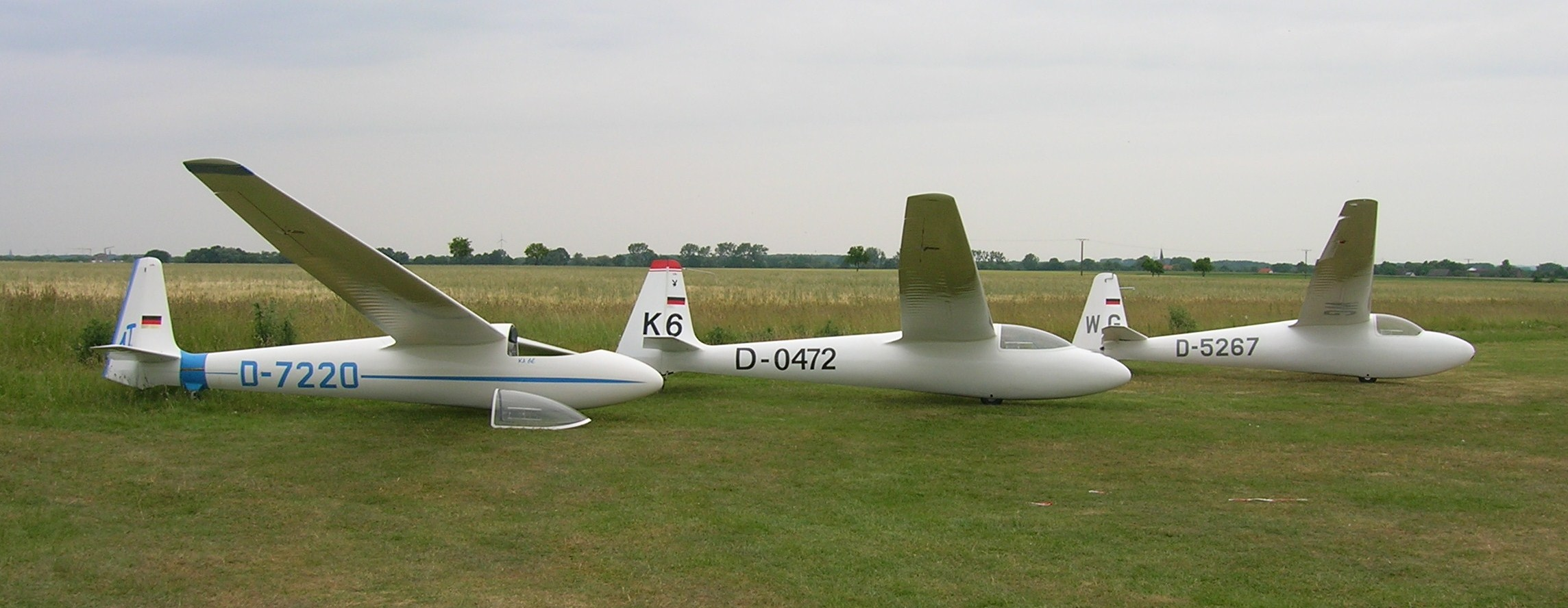 Two Schleicher Ka 6 E (left, center) and one Ka 6 CR (right). Picture was taken at german airfield Soest/Bad Sassendorf